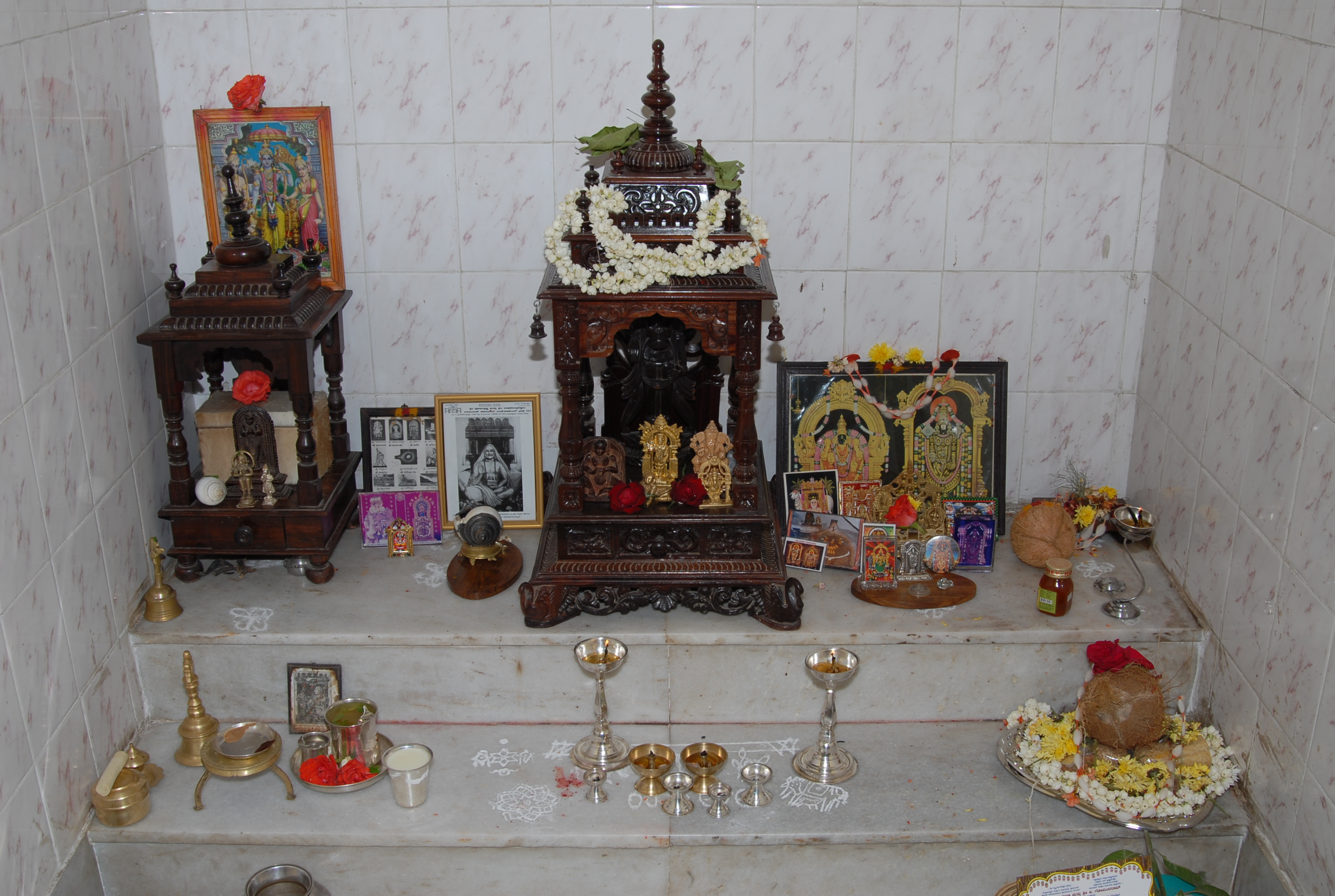 Pooja room in an Indian home